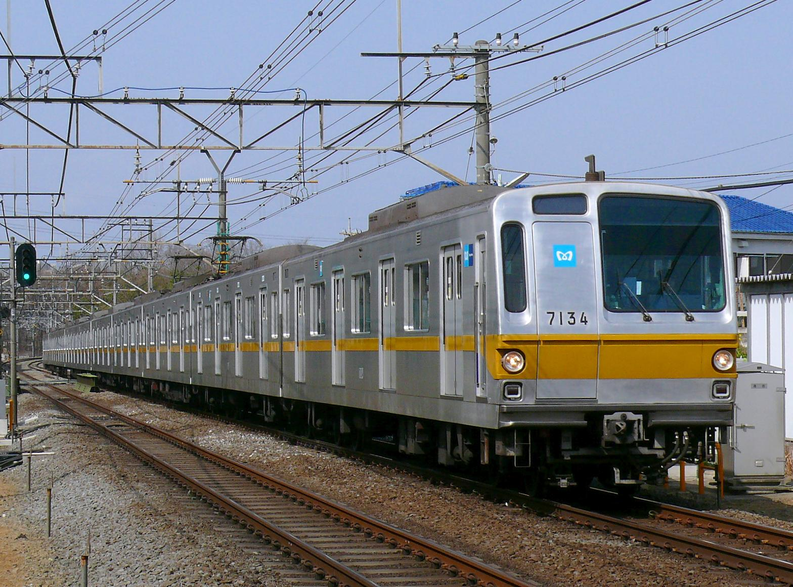 Tokyo Metro 7000 series EMU set 7134 at Akitsu Station on the Seibu Ikebukuro Line